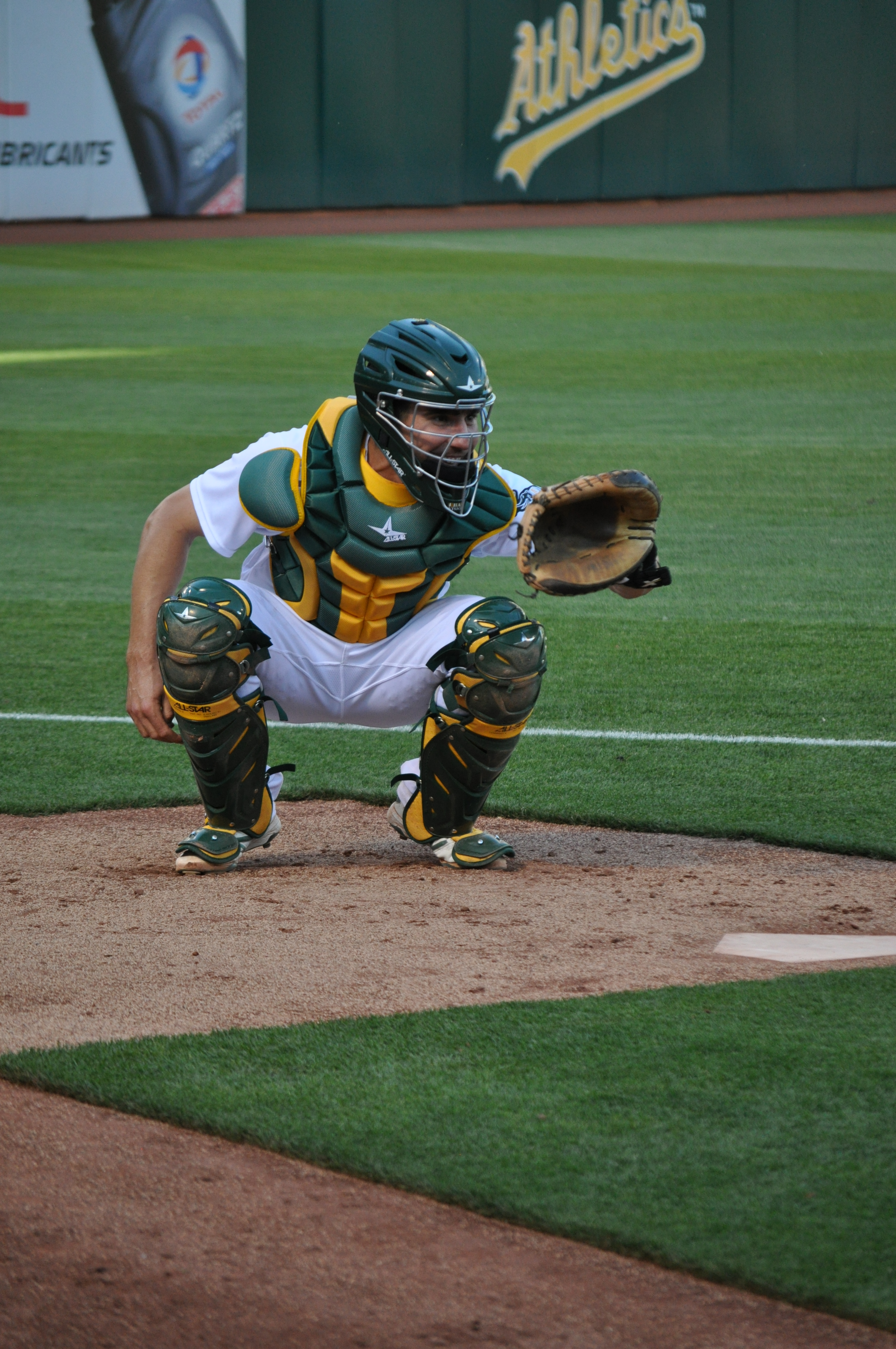 McBride in the A's bullpen, 5-17-16